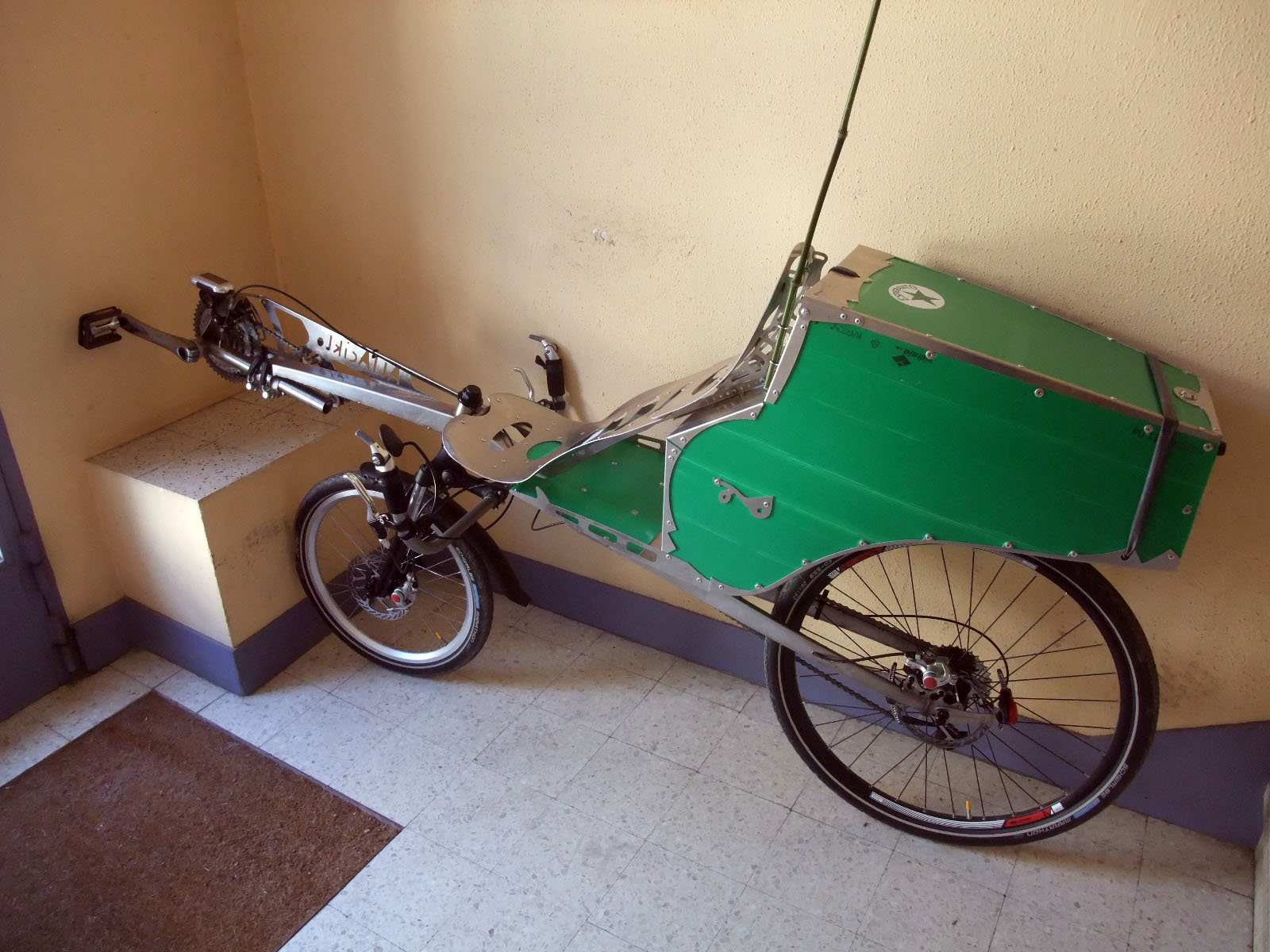 ALIAciklo recumbent bicycle